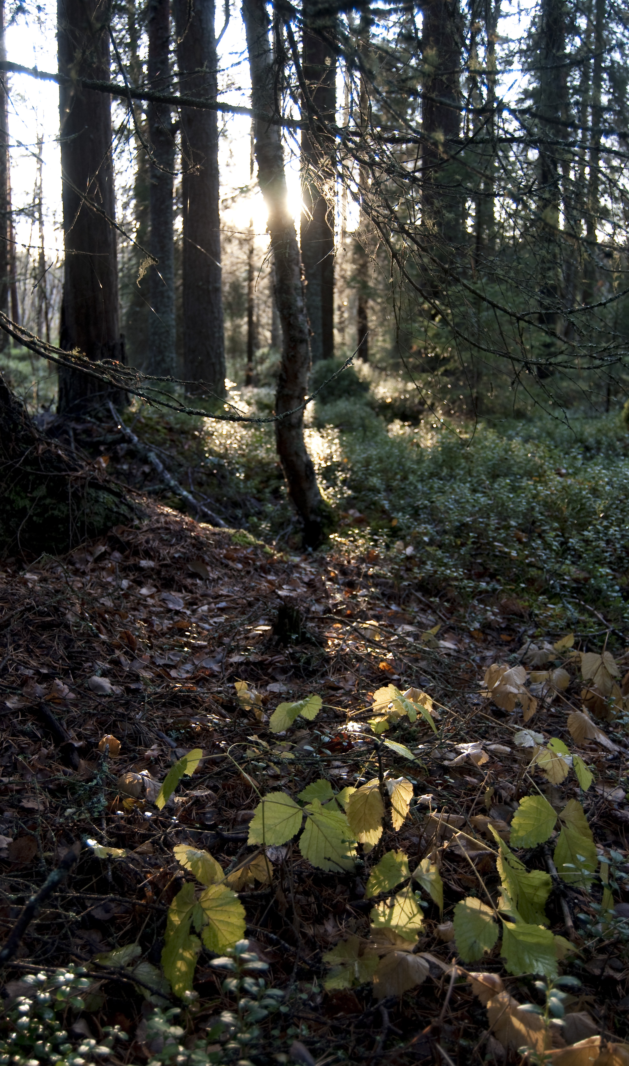 Tysjöarnas bird reserve outside Östersund, Jämtland, Sweden.